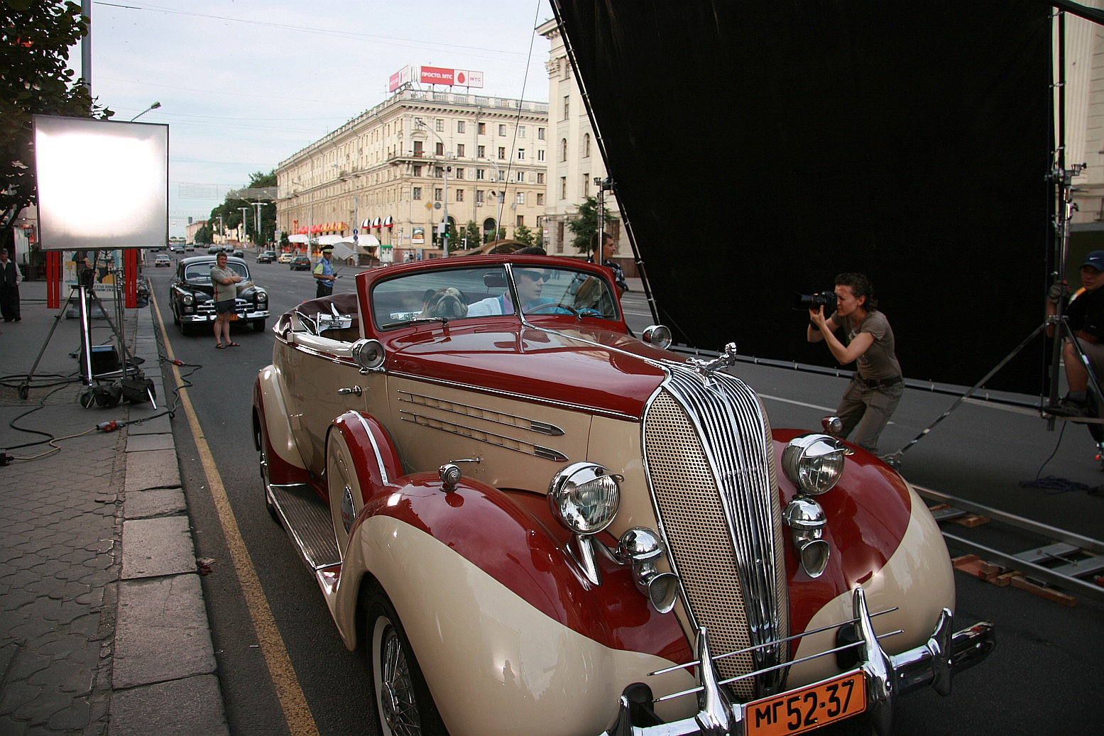 Maxim Matveev with Bulldog Filya on Independence avenue, Minsk (production of "Stilyagi"). The automobile is a 1936 Hudson Custom Eight Convertible with custom paint work.